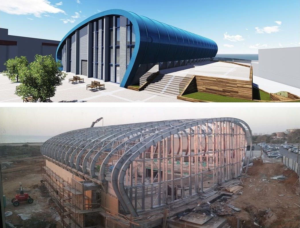 Sports Center at Tel Aviv, designed by Moti Bodek and Dana Oberson